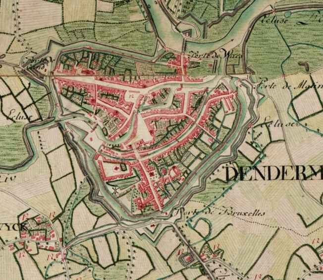 Dendermonde,_Belgium_;_ detail from Ferraris_Map